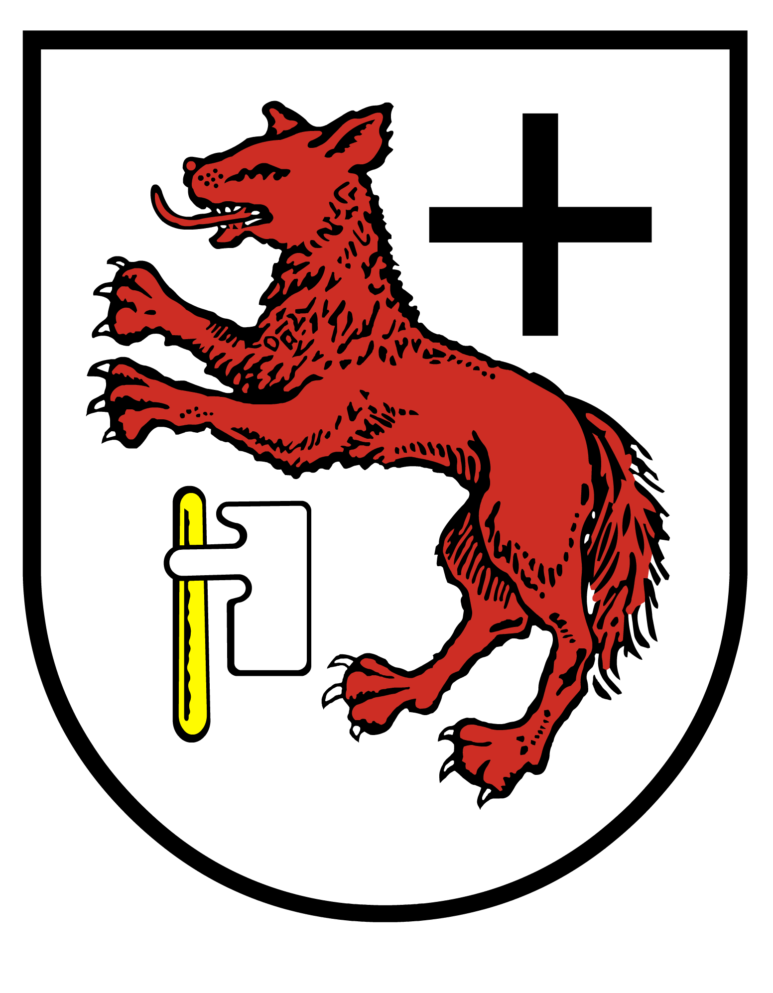 Coat of arms of the former district of Heiligenbeil, East Prussia, Germany